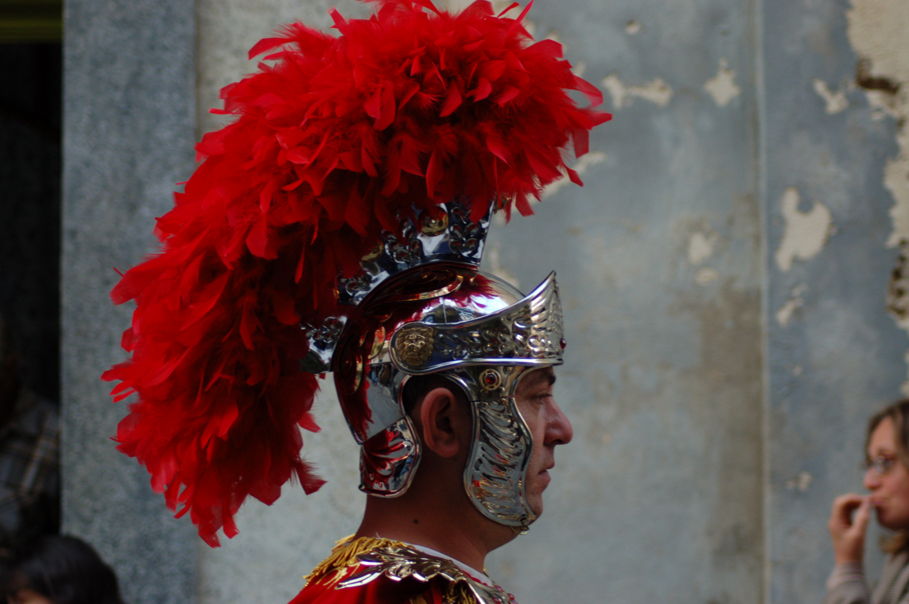 Profile of head of a man dressed as a Roman Soilder during the Good Friday Pagent of Naxxar, Malta